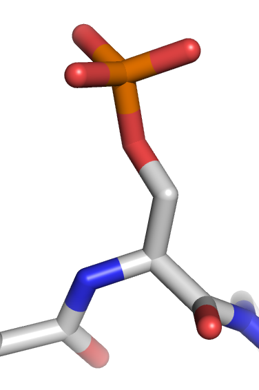 Phosphorylated serine residue. Color coding: phosphor orange, oxygen red, carbon grey, nitrogen blue